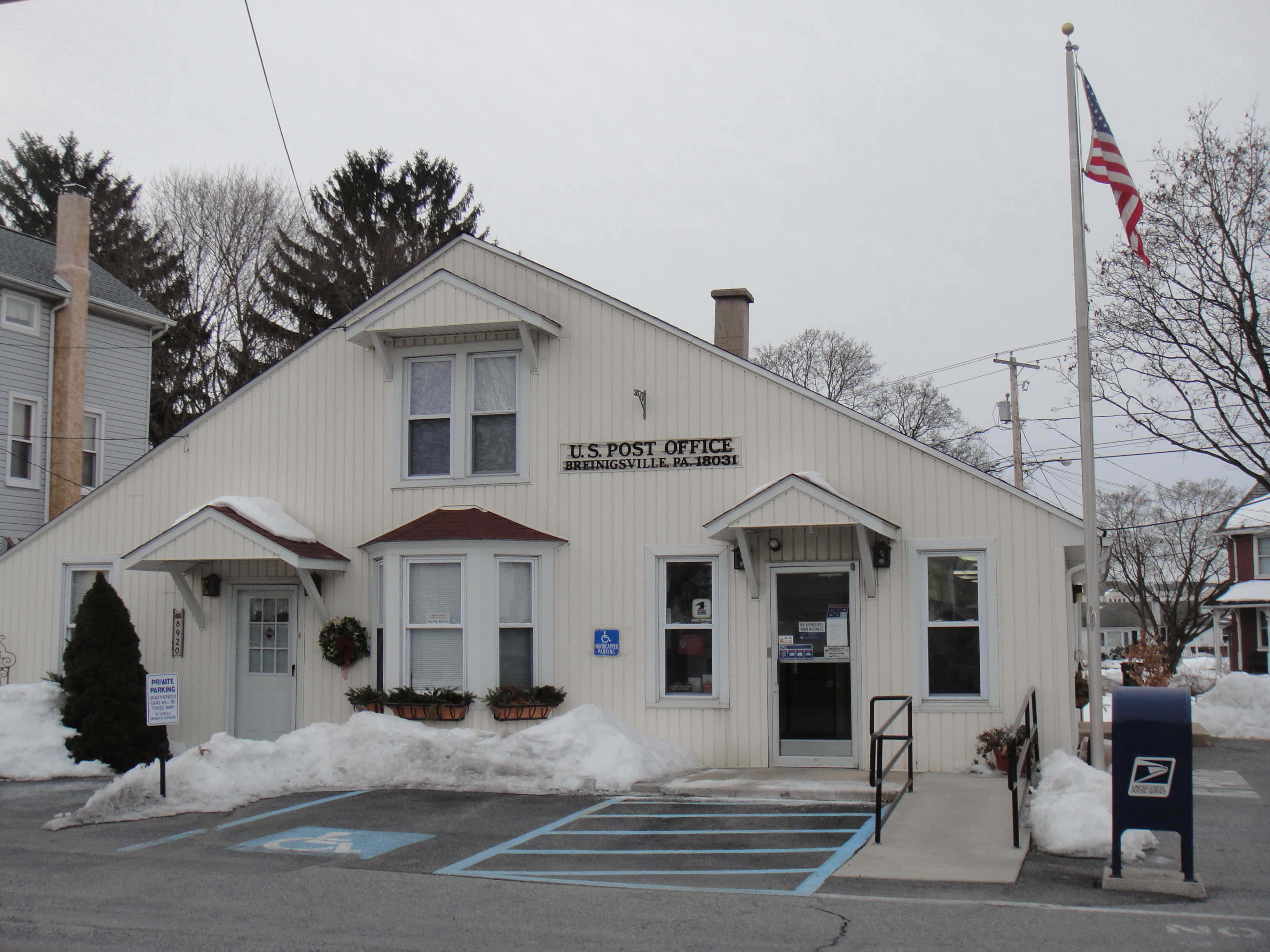 U.S. Post Office, Breinigsville 18031